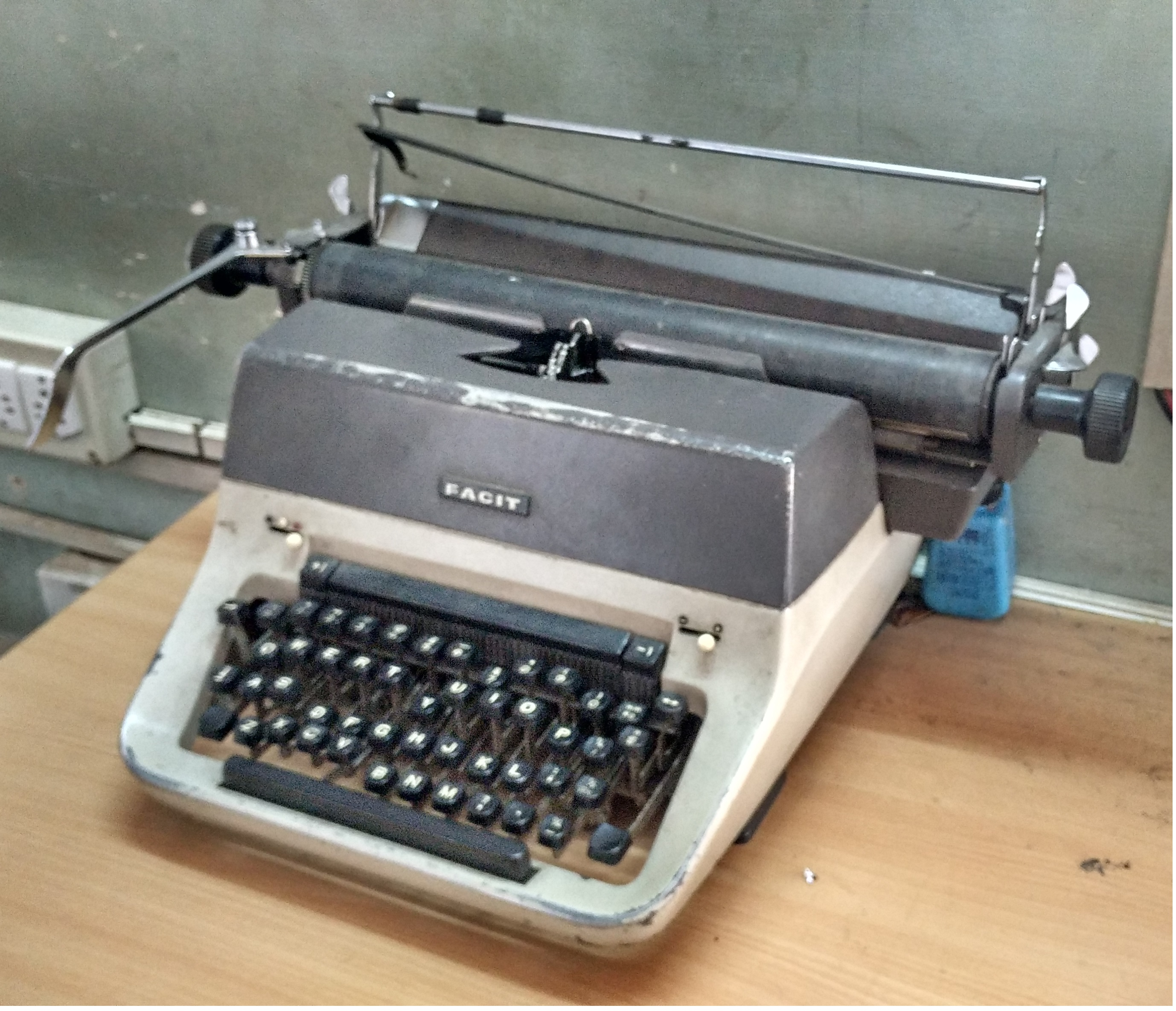 A Mechanical Typewriter